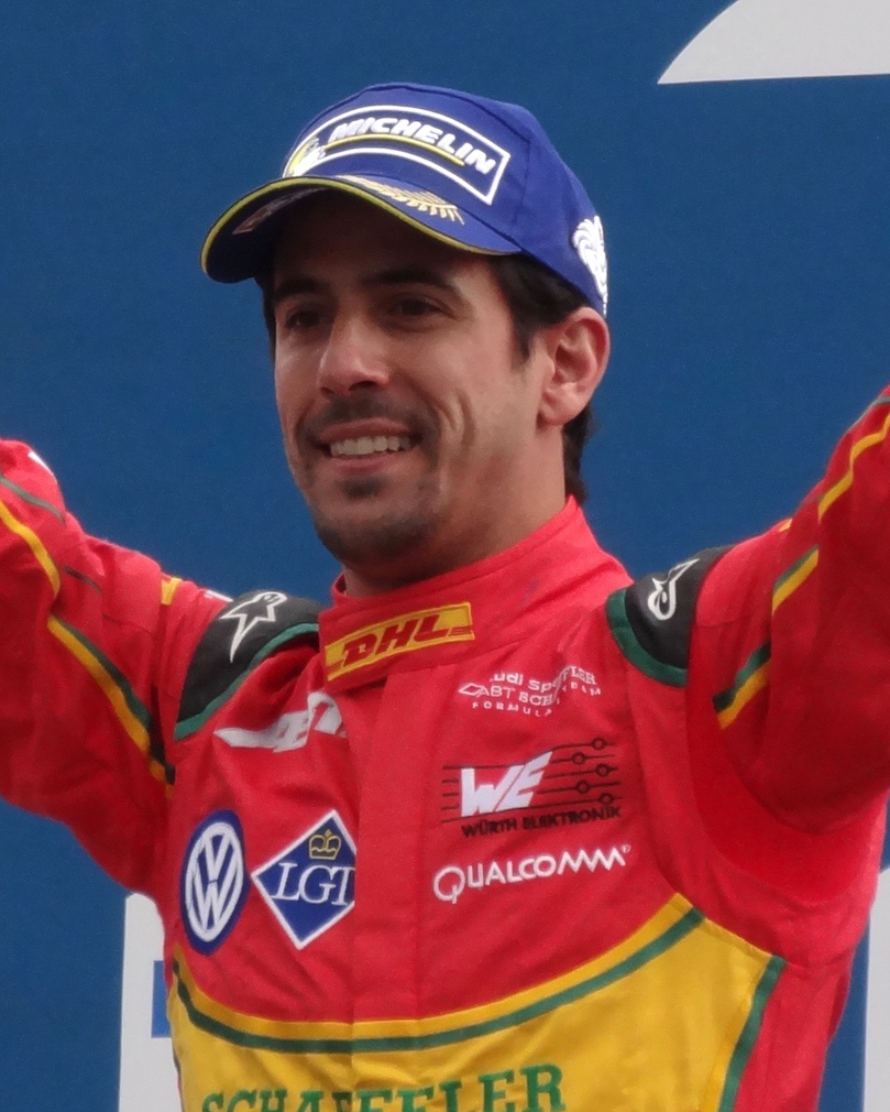 Lucas di Grassi Paris EGP 2016 winner